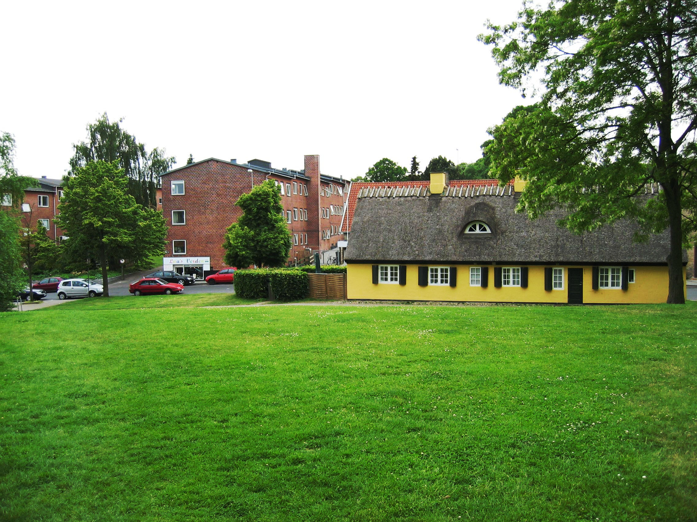 Bag Vangede Bygade in Gentofte Municipality North of Copenhagen, Denmark